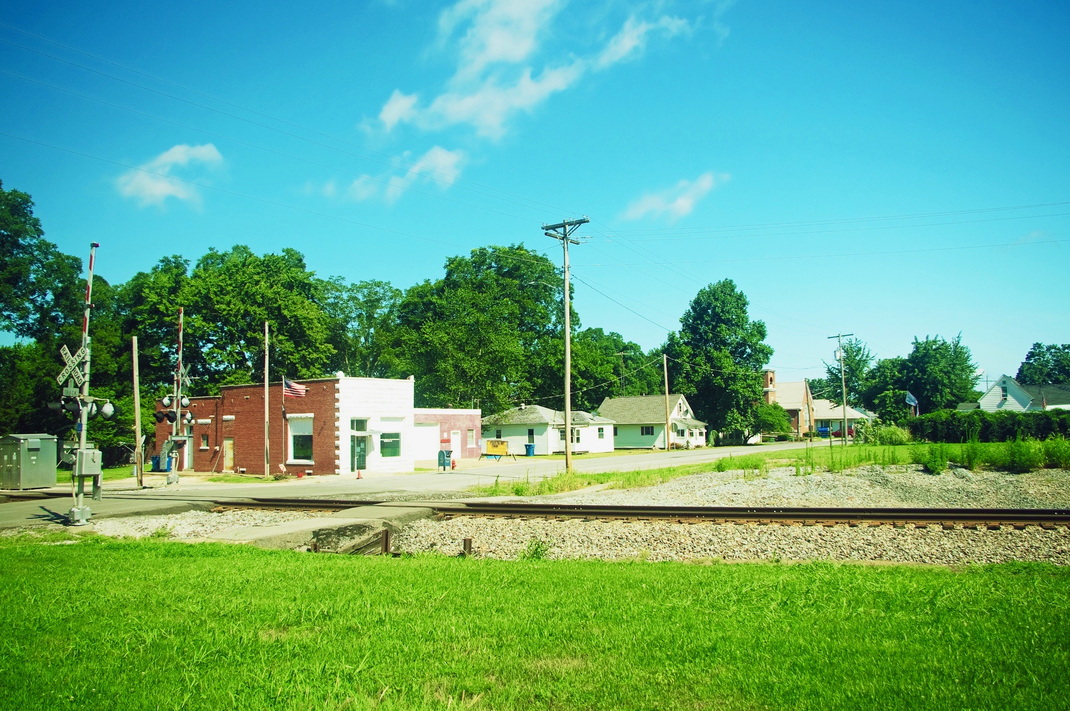 Buildings along Main Street in Bellmont, Illinois, United States.